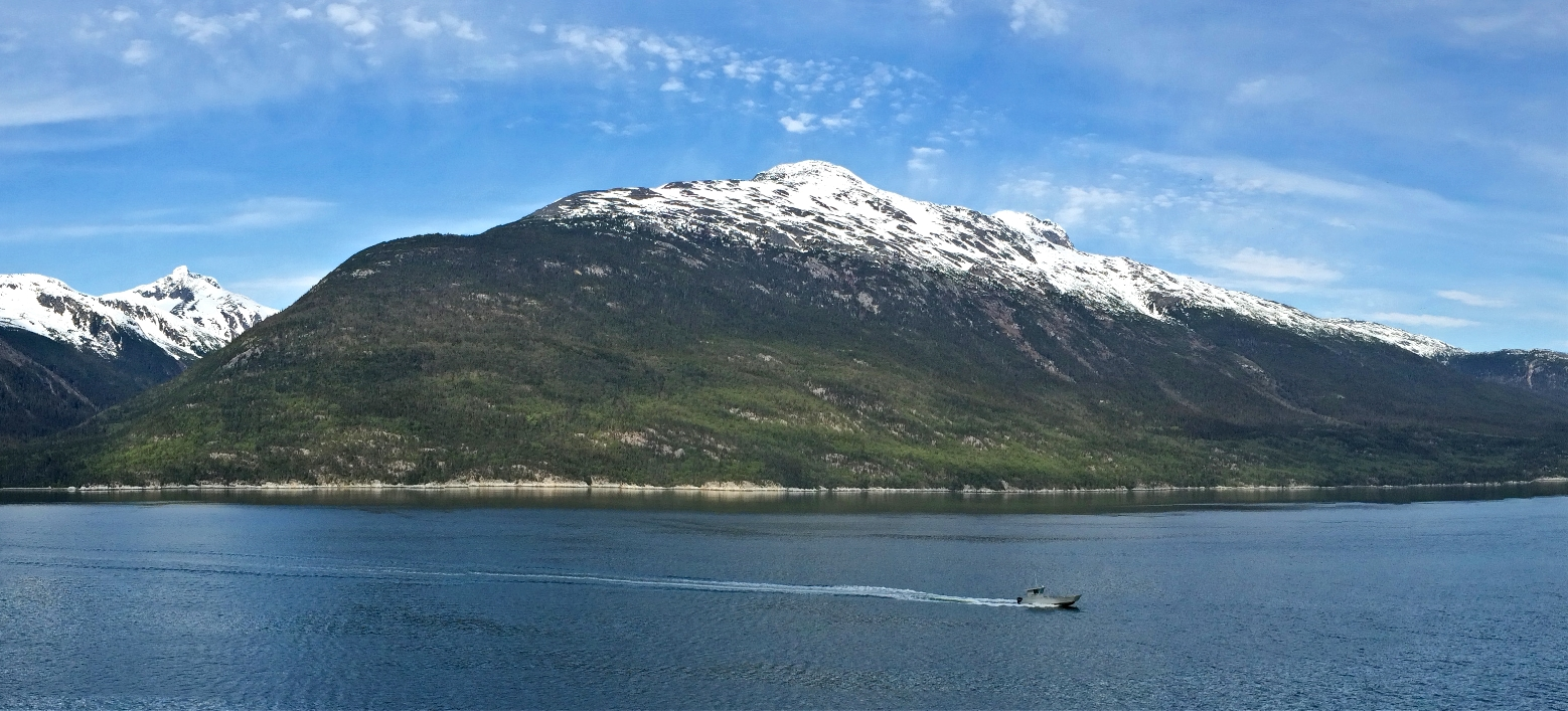 Face Mountain near Skagway, AK